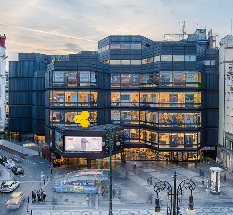 Shopping centre Kotva (= Anchor)